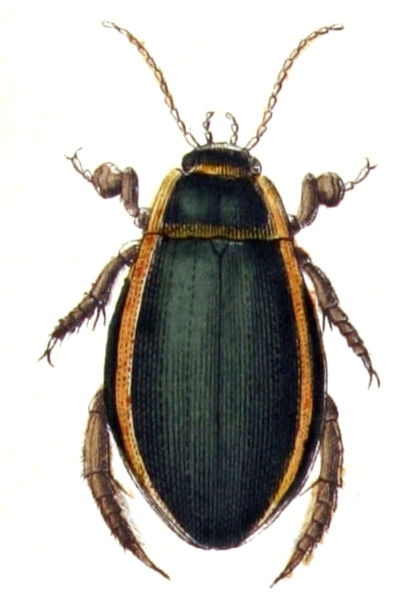 Cybister laterimarginalis male, from Calwer's Käferbuch, Table 7, Picture 1. Taxonomy was updated to 2008, using mostly the sites Fauna Europaea and BioLib. Please contact Sarefo if the determination is wrong!